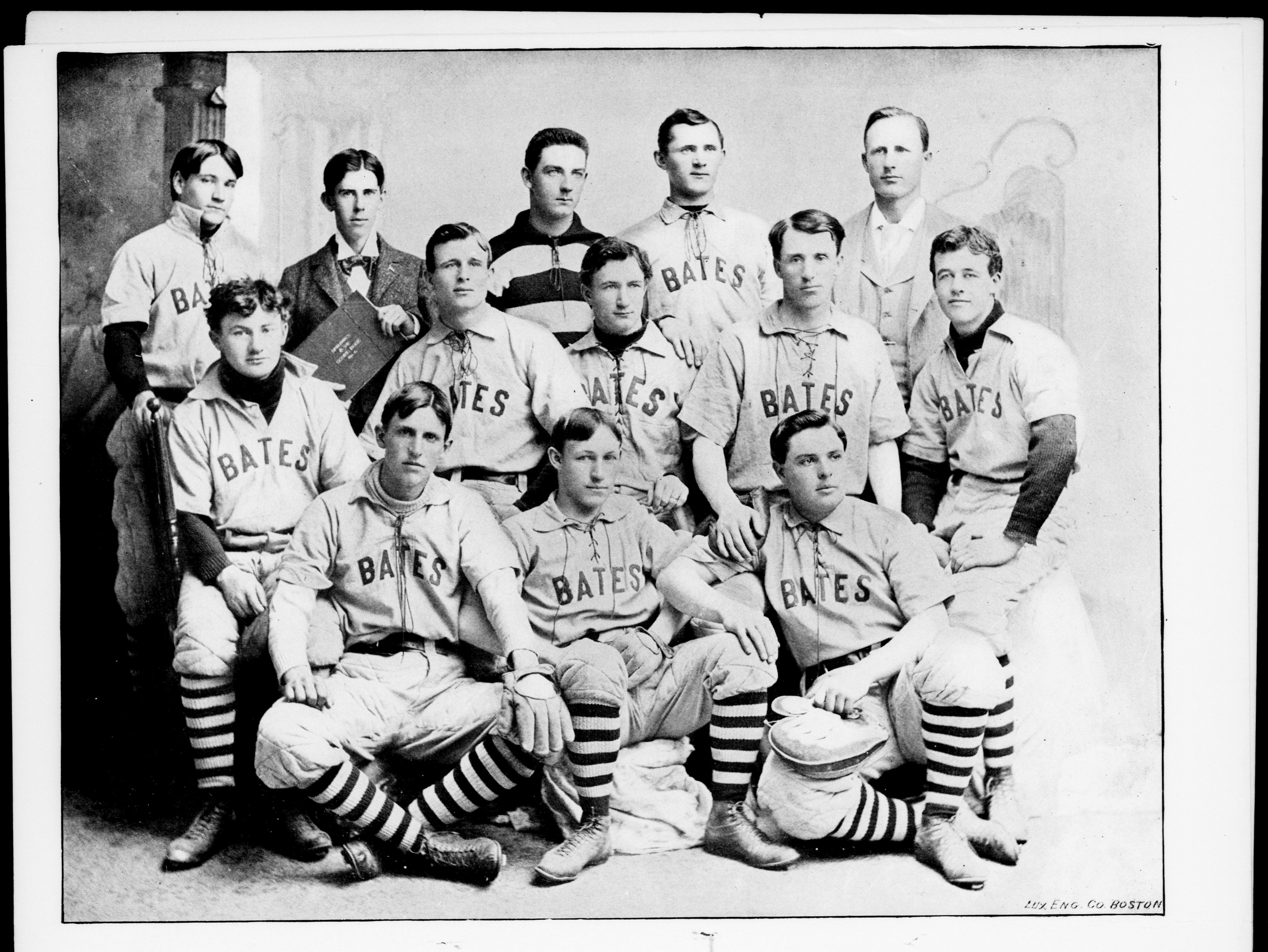 Title: Bates Student Year: 1895 (1890s) Authors: Bates College Subjects: Publisher: Lewiston, Me. : Bates College Text Appearing Before Image: 149 Lisbon St., Lewiston, Me. Complete business and shorthand Courses.Send for Catalogue, N. E. Rankin, principal* Rensselaer \/^Polytechnic^SSfc Institute, V Troy, N.Y. Local examinations provided for. Send for a Catalogue. * * * * In these days ofadvanced ideas,the demand forcollege-trainedteachers in allgrades of schoolwork is rapidlyincreasing. * * * * EASTERNTEACHERSAGENCY, E. F. FOSTER, MANAGER. & & £ * We keep in stepwith the times,and we wantcollege-trainedteachers on ourlists, and we musthave them. Ifyou want to teach,come to us. % # * 50 Bromfield Street, BOSTON, MASS. W. WIG GIN & CO., Apothecaries. Physicians Prescriptions Our Specialty. 213 Lisbon Street, Corner of Pine, LEWISTON, ME. « Text Appearing After Image: T H E